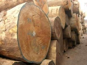 Loka west teaks — South Sudan.